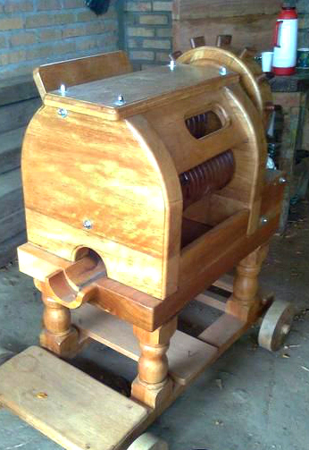 Trapiche Ornamental de Madera.